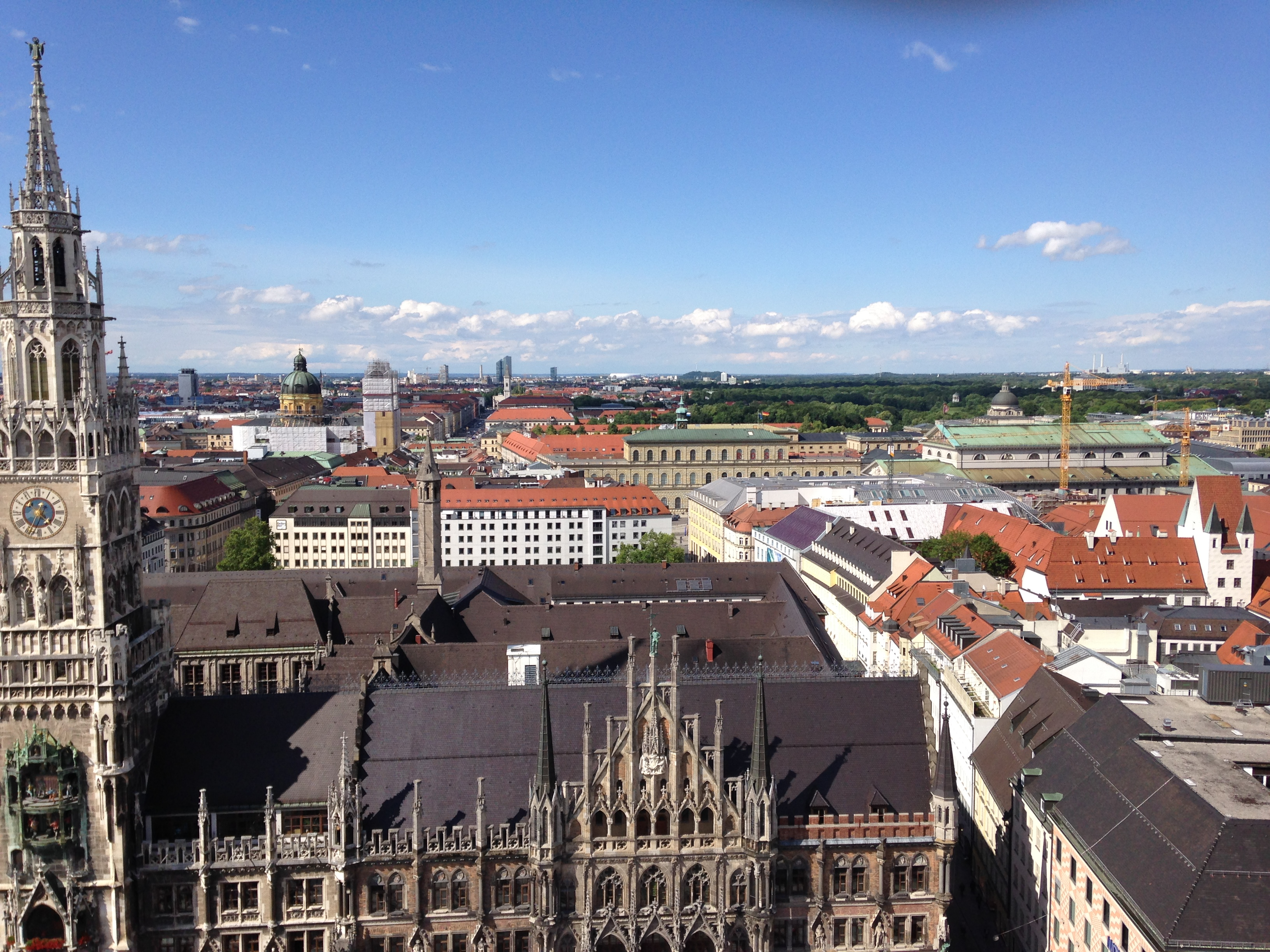 Nikon D70 in June 2015